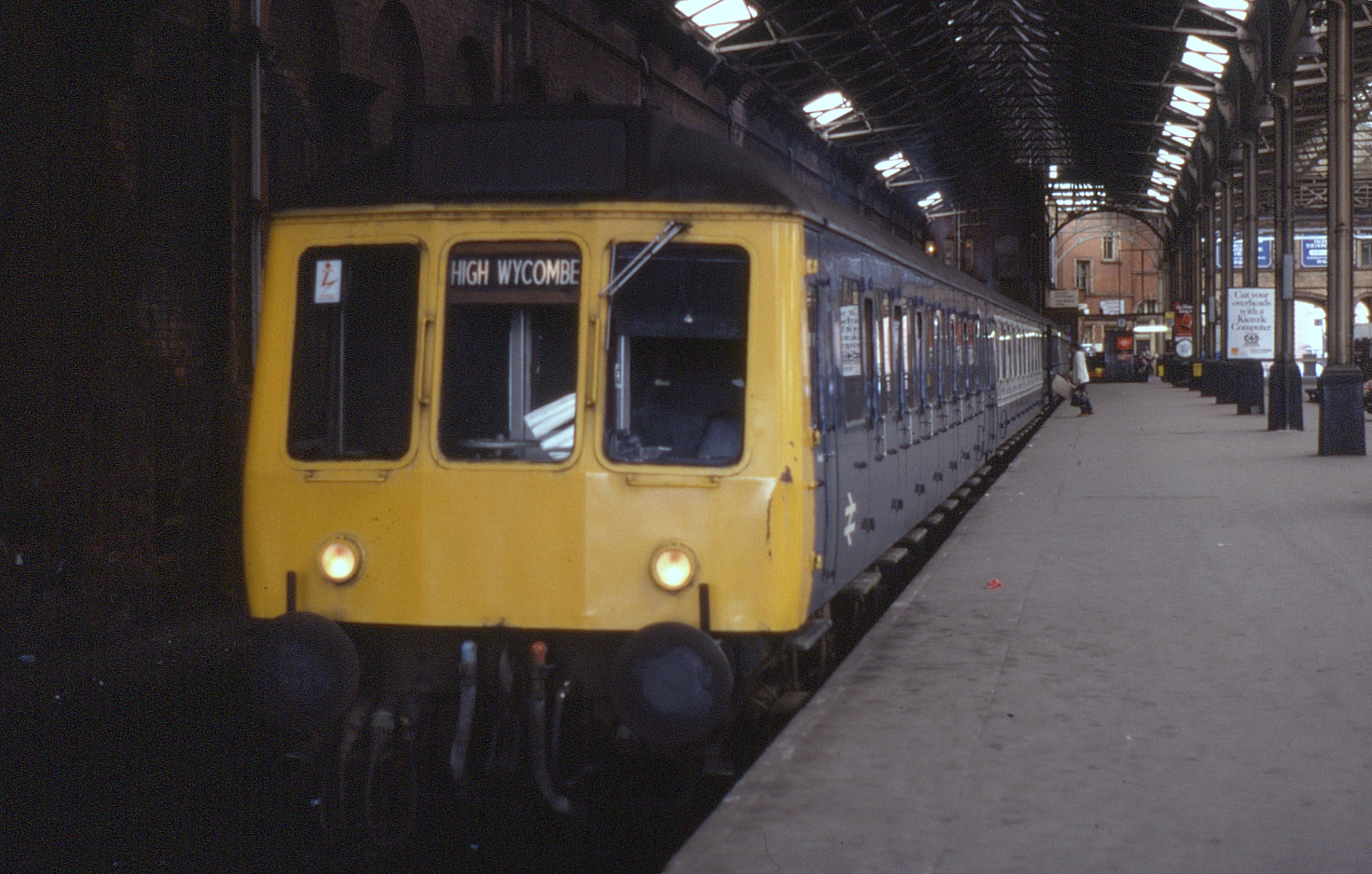 Over 40 of these 4-car high density sets were built by British Rail at Derby works from 1960 and saw work until 1998. Used exclusively on services from London Marylebone through to Aylesbury and Banbury via High Wycombe. Seen on 13 April 1981 is a set at Marylebone station in London.